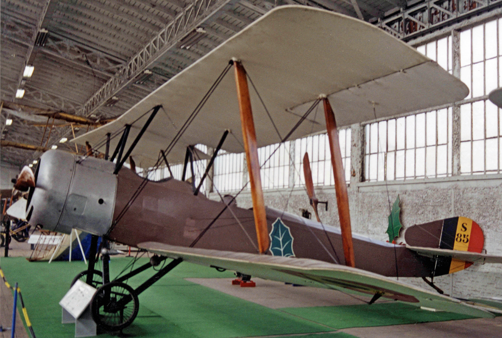 Sopwith 1 1/2 Strutter of the Belgian Air Force preserved in the Brussels Military Museum